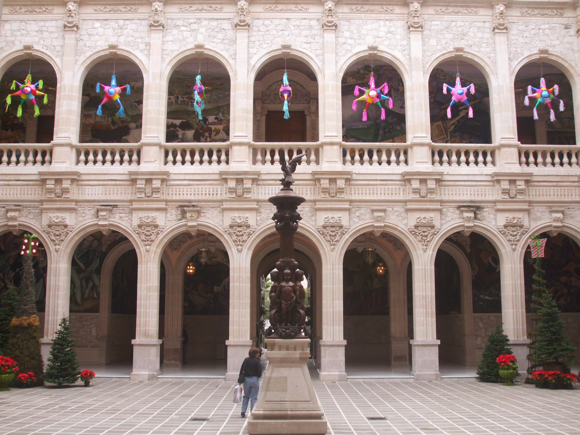 Court of Palacio del Gobierno during Christmas, showing sculpture and piñatas.